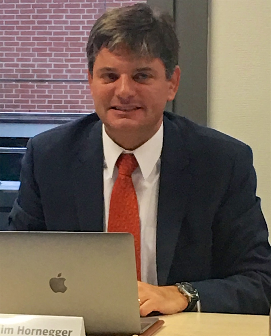 President of Friedrich-Alexander-University Erlangen-Nuremberg, Germany, Prof. Dr. Joachim Hornegger